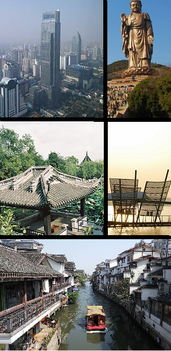 Collection of pictures from Wuxi